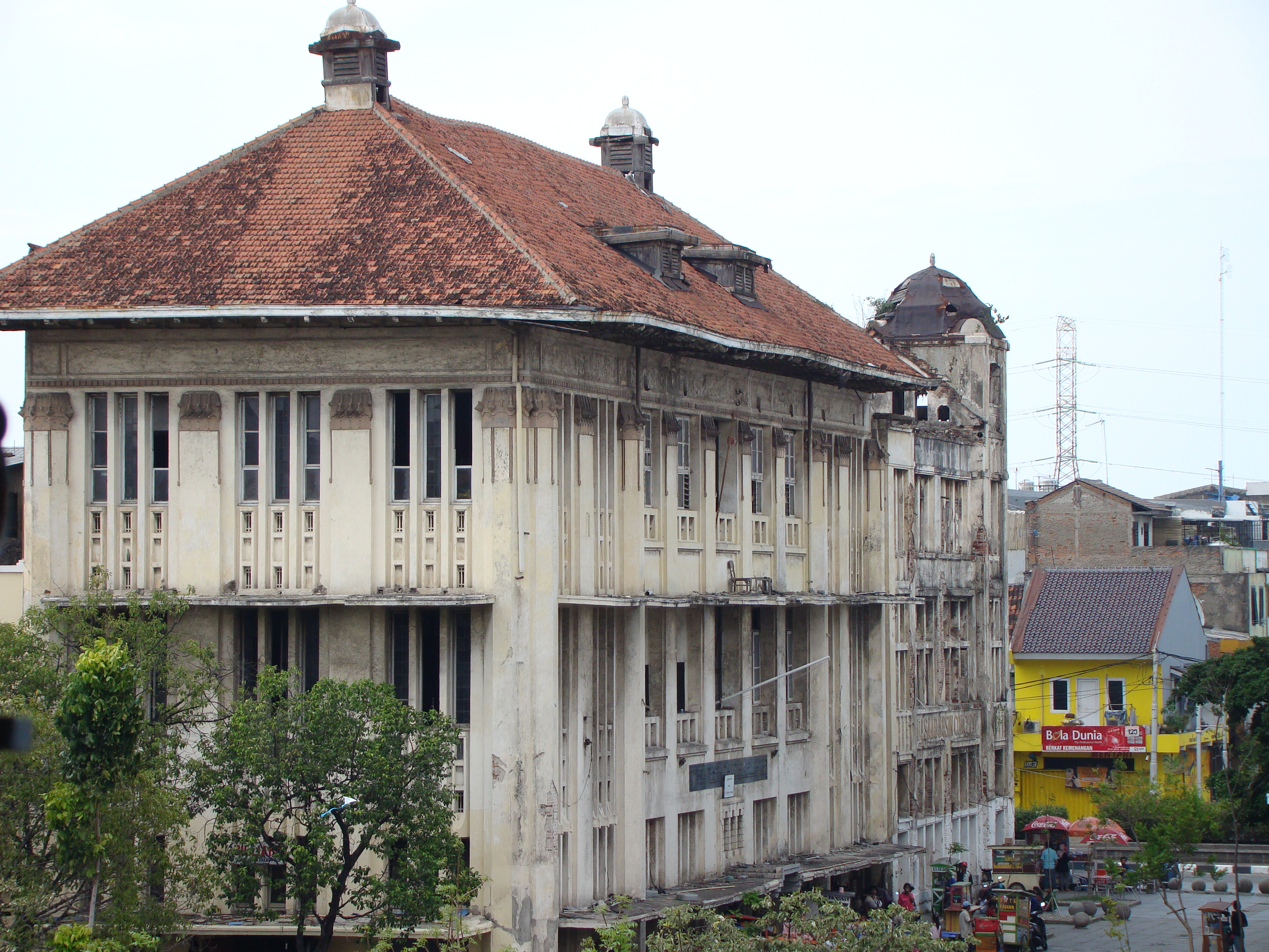 Asuransi Jasindo taken from Jakarta History Museum This photo was taken on October 25, 2009 in Pinangsia, Jakarta, DKI Jakarta, ID, using a Sony DSC-H50.